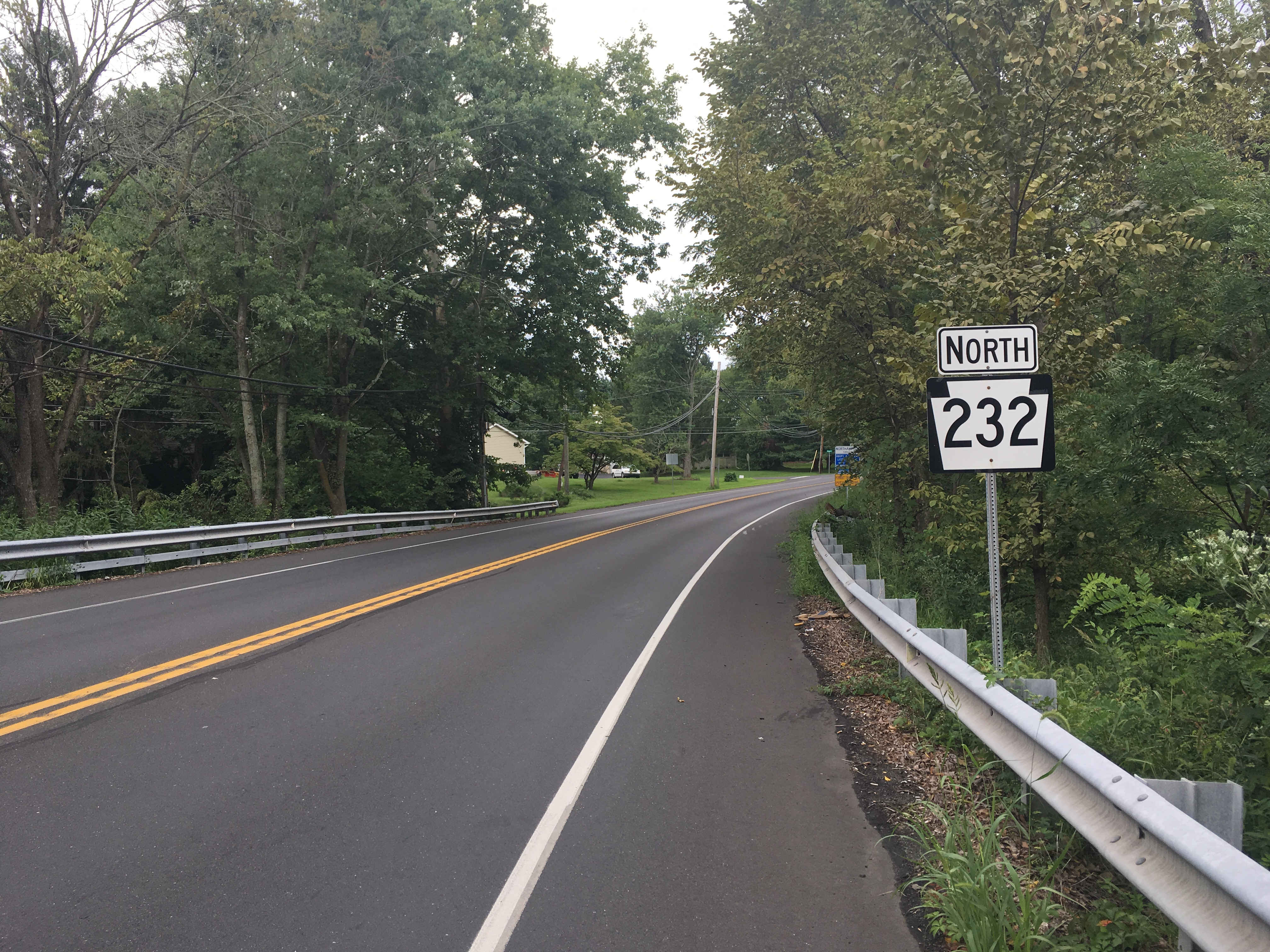 Northbound Pennsylvania Route 232 (Second Street Pike) past the intersection with Bristol Road in Northampton Township, Pennsylvania